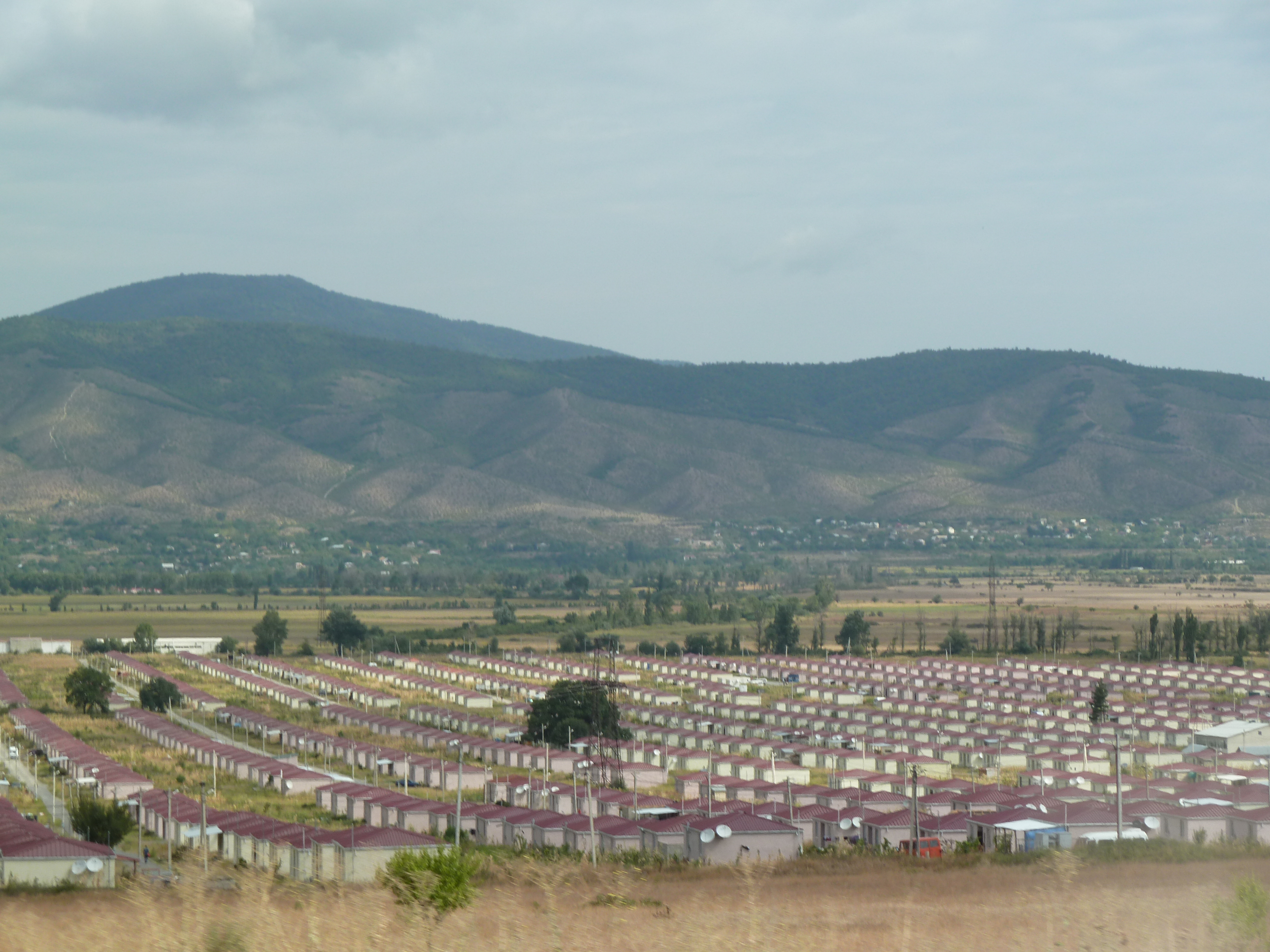 Tserovani IDPs settlement - FM Urmas Paet's visit to Georgia 7.-8. September 2010